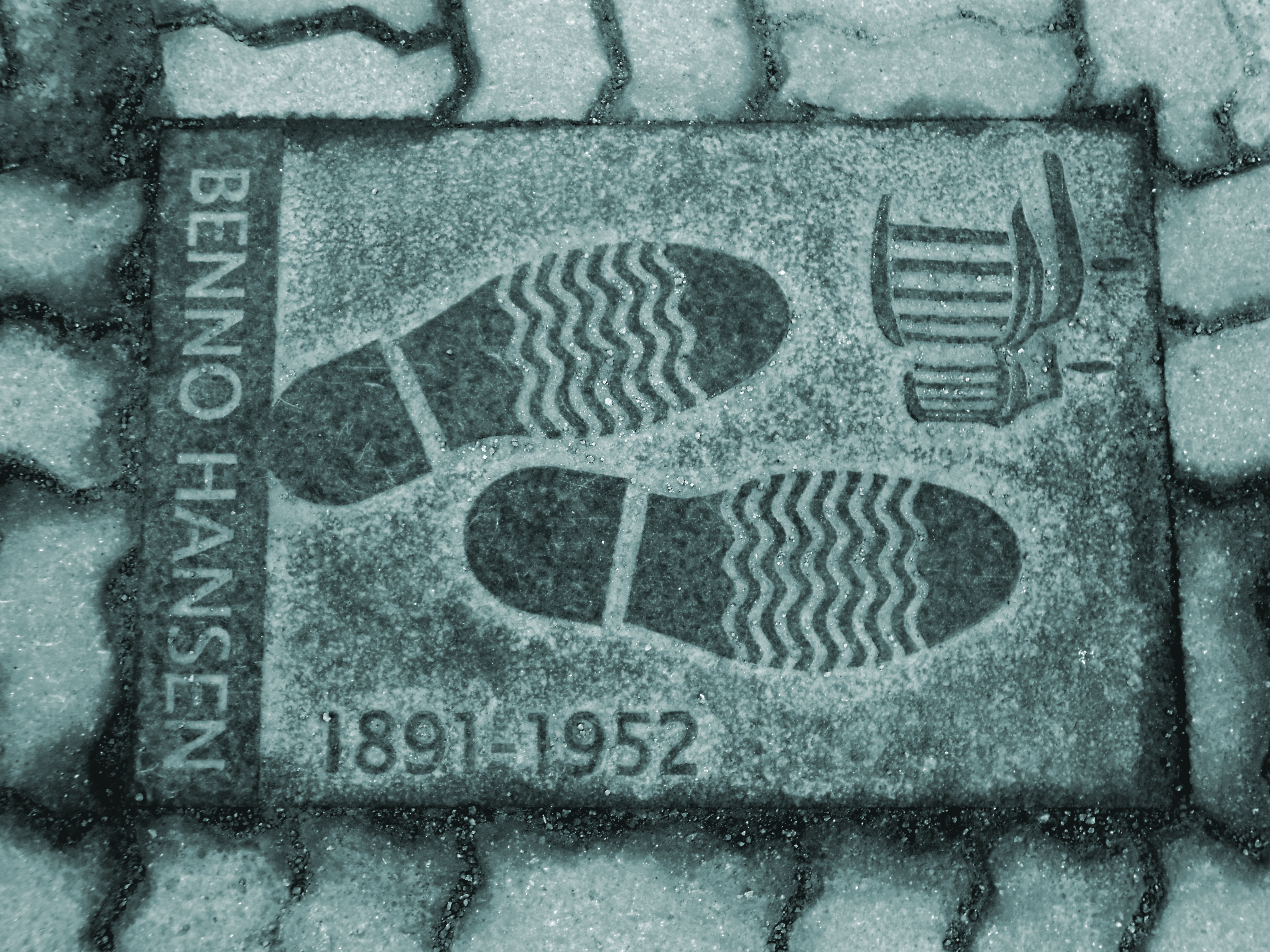 Mälestustahvel kõnniteel, Benno Hanseni jalajäljed.